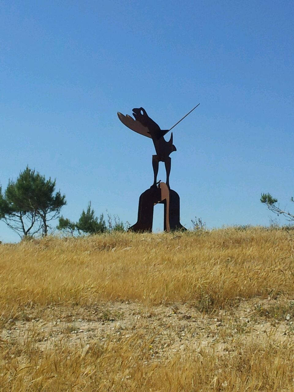 The statue "Bird-Fish", by Deana Merhav, Sculptures Road in Hazerim, The Negev, Israel